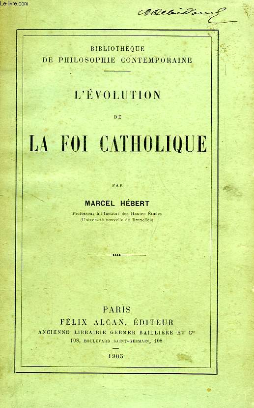 Cover page of L'Evolition de la foi catholique (Macel Hébert)